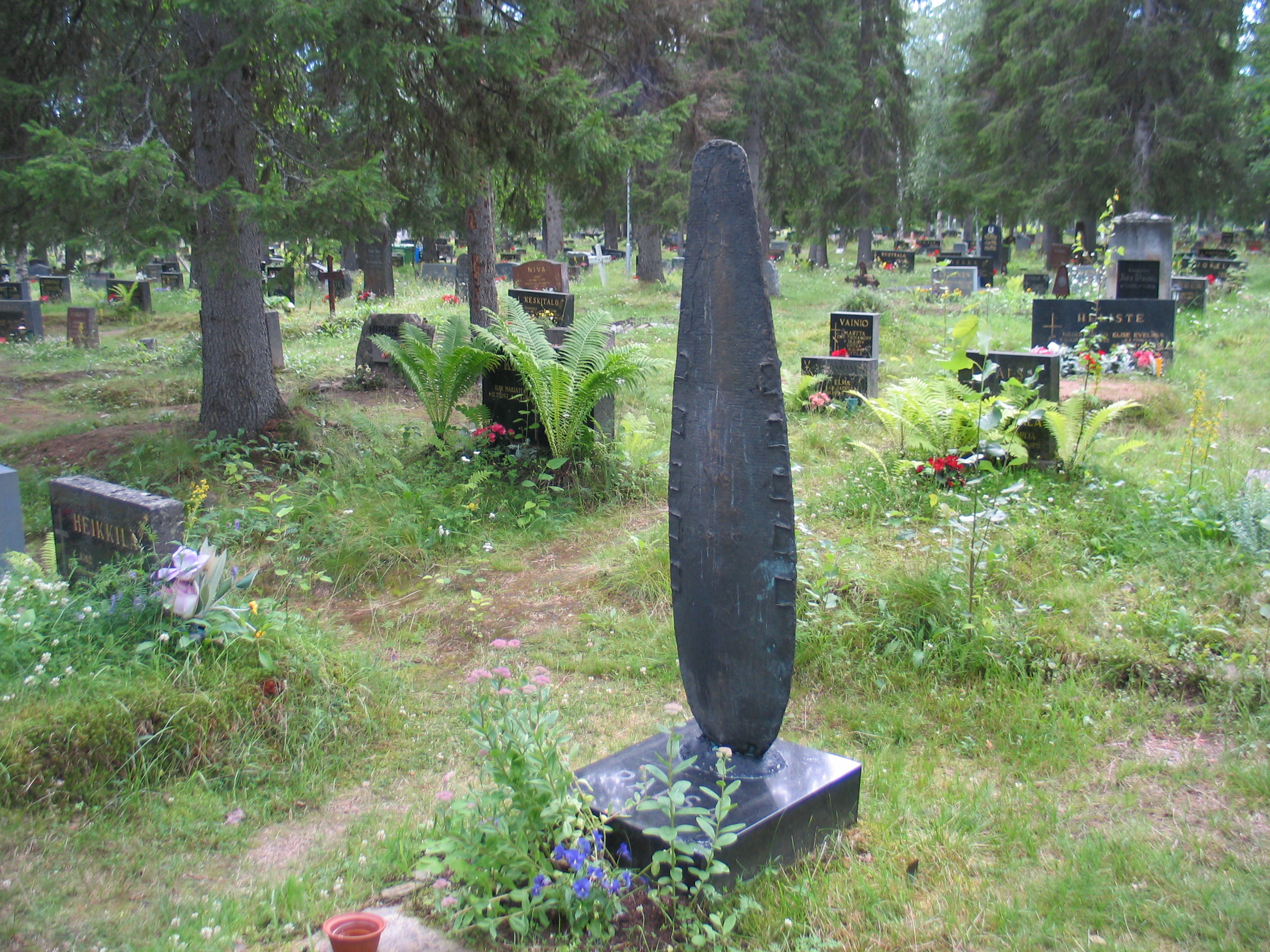 Finnish artist Kalervo Palsa's gravestone